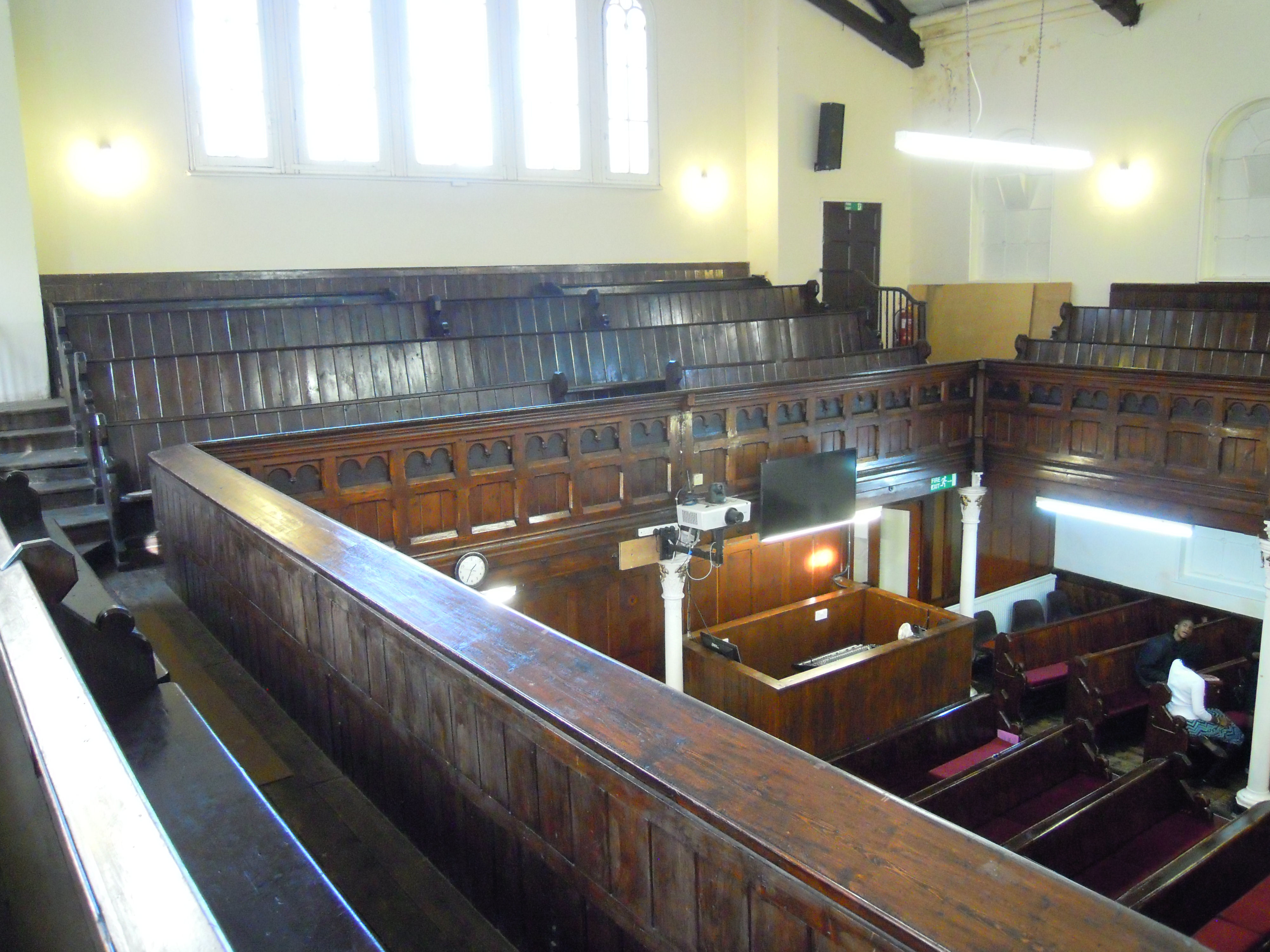 The gallery pews in the former Presbyterian Church in Aldershot in Hampshire